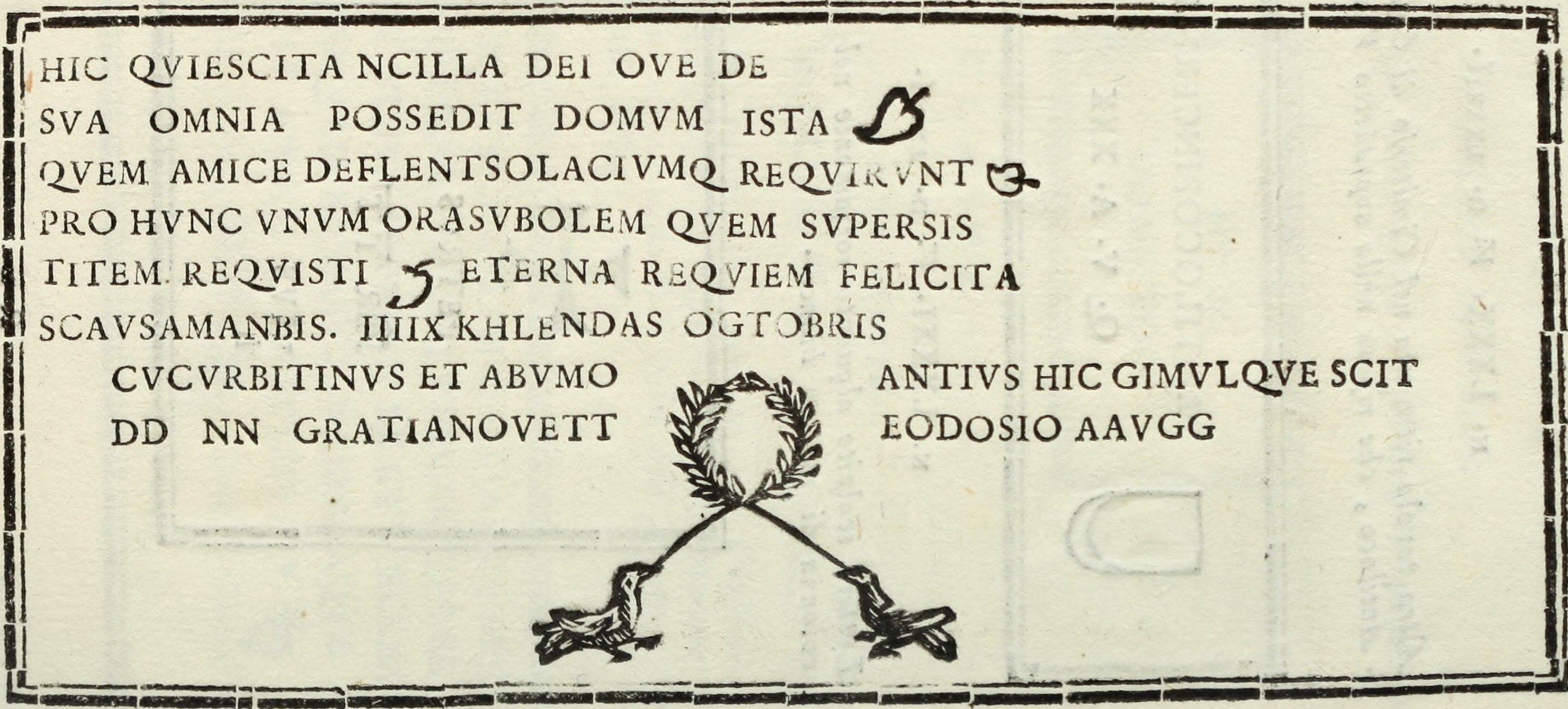 Title: Indicazione antiqvaria per la villa svbvrbana dell'eccellentissima casa Albani Year: 1785 (1780s) Authors: Albani, Alessandro, 1692-1779 Morcelli, Stefano Antonio, 1737-1821 Torlonia, Alessandro, principe, 1800-1886 Fèa, Carlo, 1753-1836 Cavagna Sangiuliani di Gualdana, Antonio, conte, 1843-1913, former owner. IU-R Subjects: Villa Albani (Rome, Italy) Publisher: Roma : P. Givnchi Text Appearing Before Image: N° LXXXII. V. n. LXII-I.In una gran tavola con buoni caratteri Text of the inscription: hic quiescit ancilla dei que de sua omnia possedit domum istaquem amice deflen(t) solaciumq(ue) requirunt pro hunc unum ora subolem, quem superistitem re(li)quisti [...] (Diehl, 1899 - see most recent interpretation on Epigraphic Database Bari project) Note About Images See G.B. De Rossi, Inscriptiones christianae urbis Romae septimo saeculo antiquiores 1, inscr. n° 288 anno 380 (comm.) = ICUR N.S. 1 3194 ; Fr. Bücheler, Anthologia